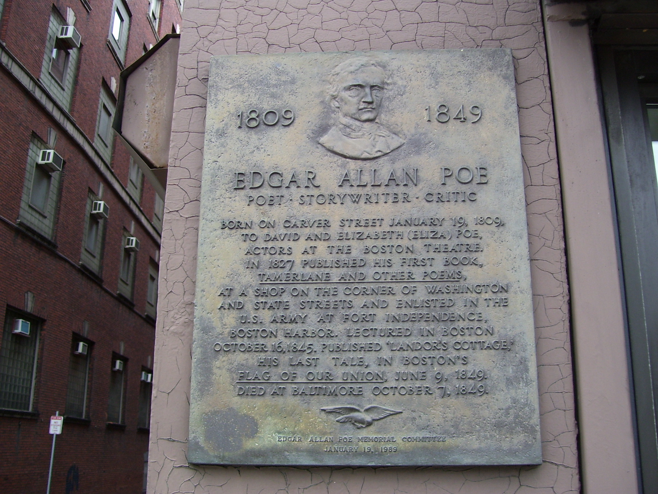 My 2008 photo of the Edgar Allan Poe birthplace plaque in Boston, MA.